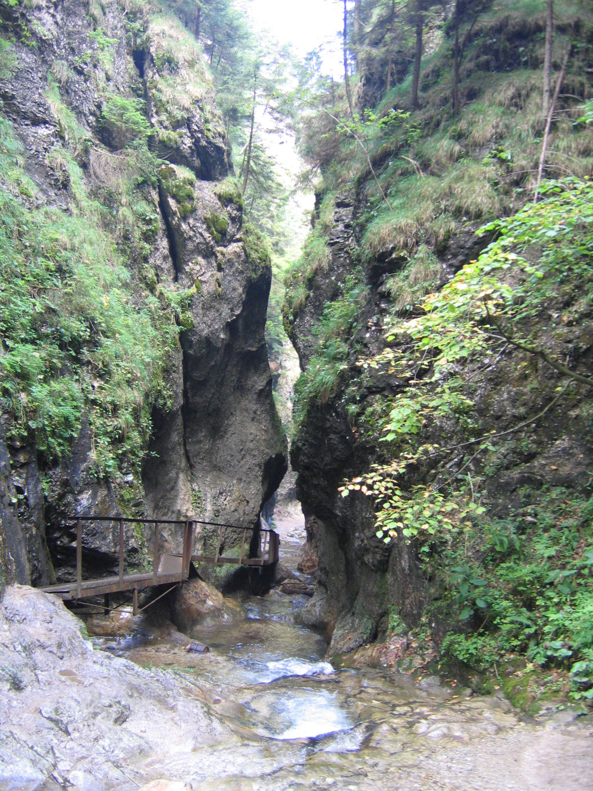 Malá Fatra, Dolné diery, Slovakia